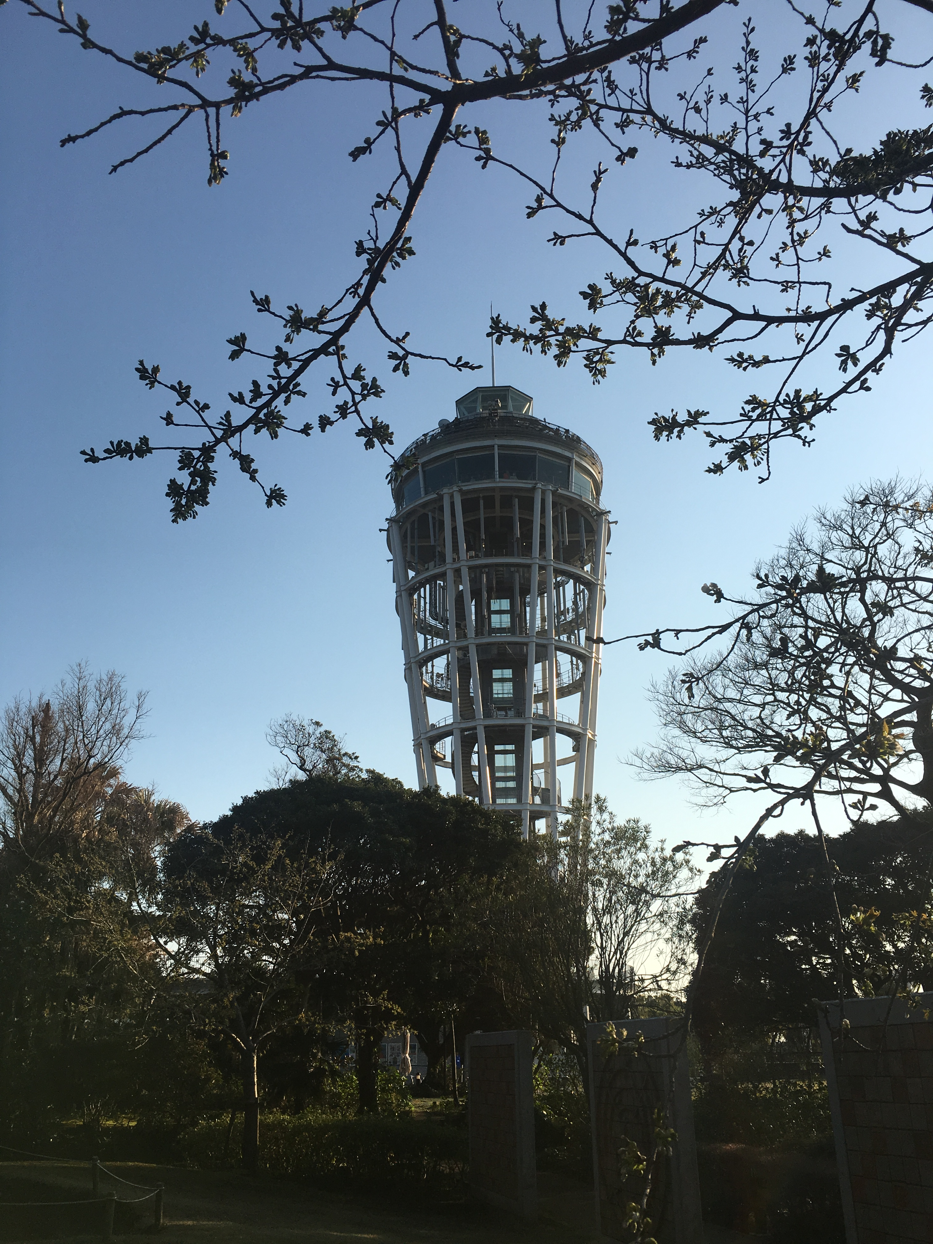 Photograph of Enoshima Sea Candle from the Samual Cocking Gardens.